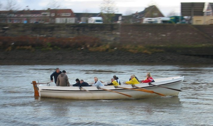 Cutter pulling, picture taken on 2004-11-27 in Bremen by User:Hawei